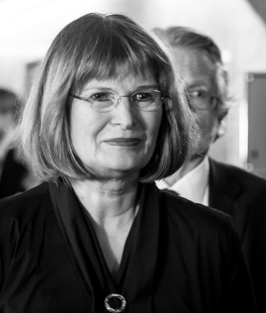 Anne Carine Tanum at Governor Øystein Olsen's annual address in February 2016